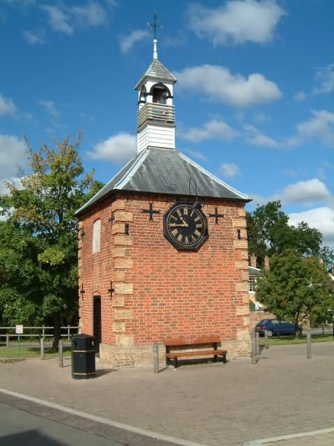 Fenstanton Clock Tower & Lockup